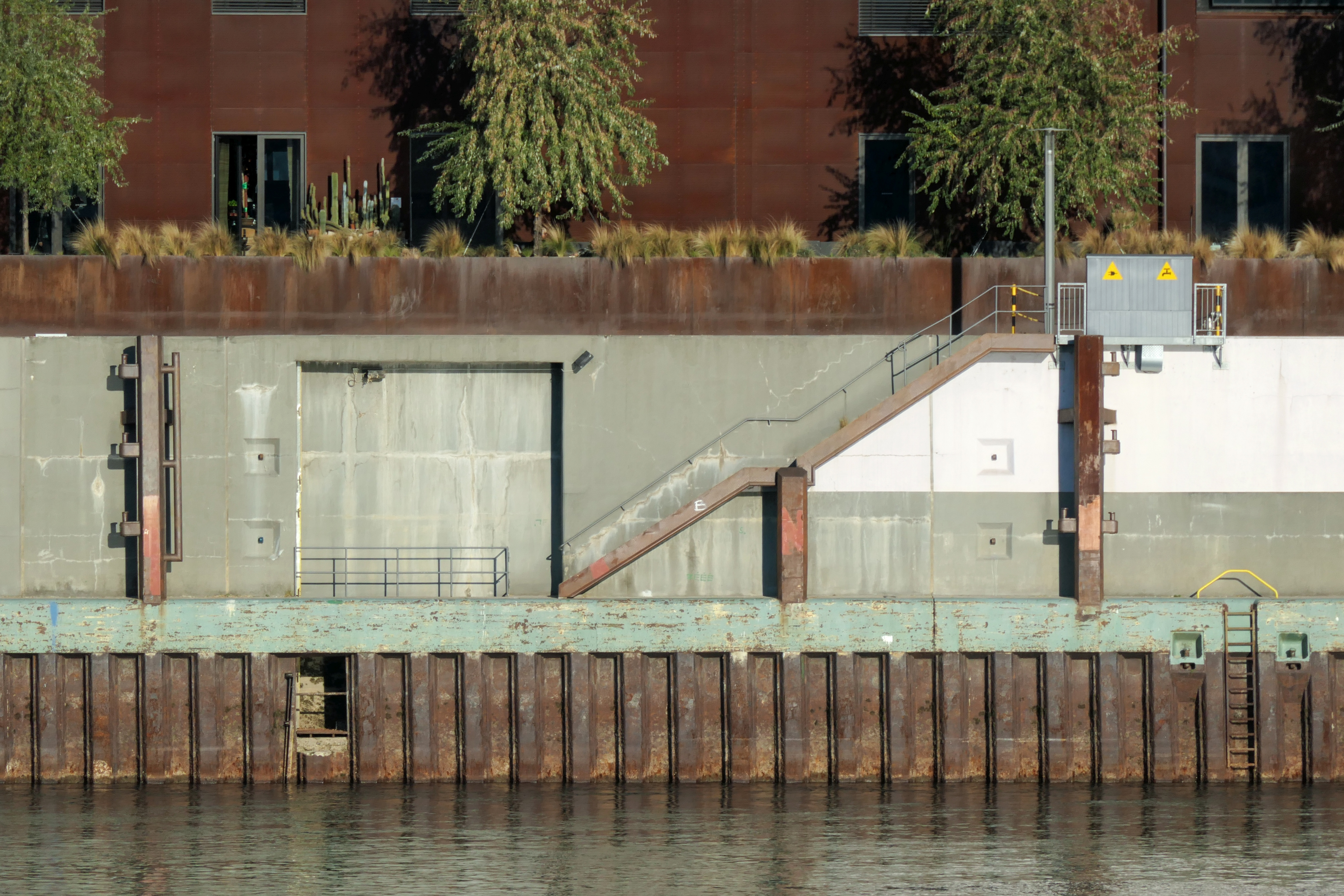 Rhine level marker Mannheim, location before 2011